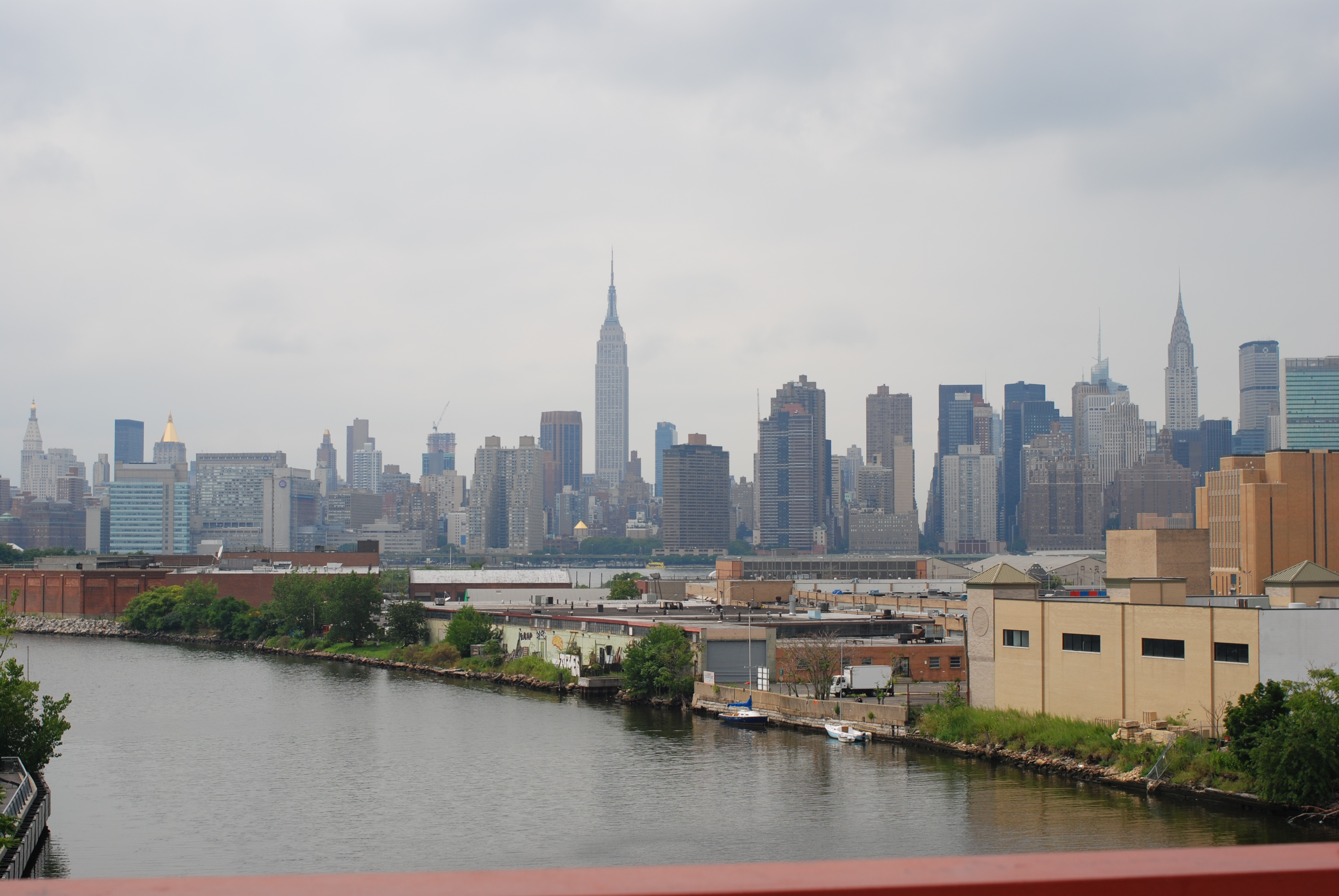 New York City viewed from Pulaski Bridge